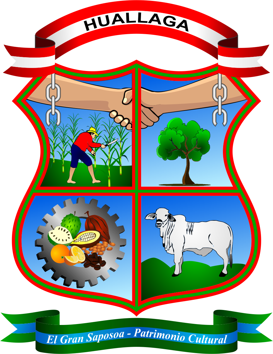 Saposoa District - Province of Huallaga - Region San Martin